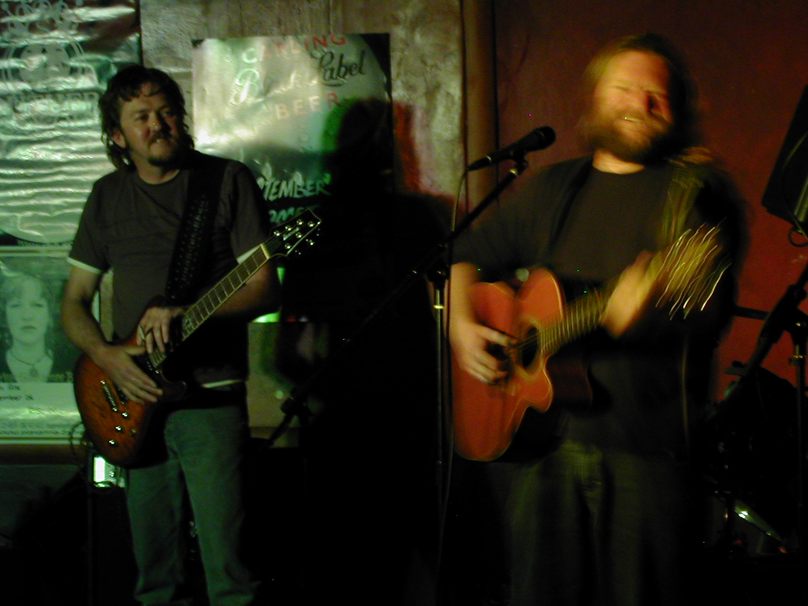 I went to watch my friend Andries and his band play a gig. He did a quick poll of the attendees. "How many of you think that Wessel should come back to South Africa?" The overwheling concensus was that I should not...